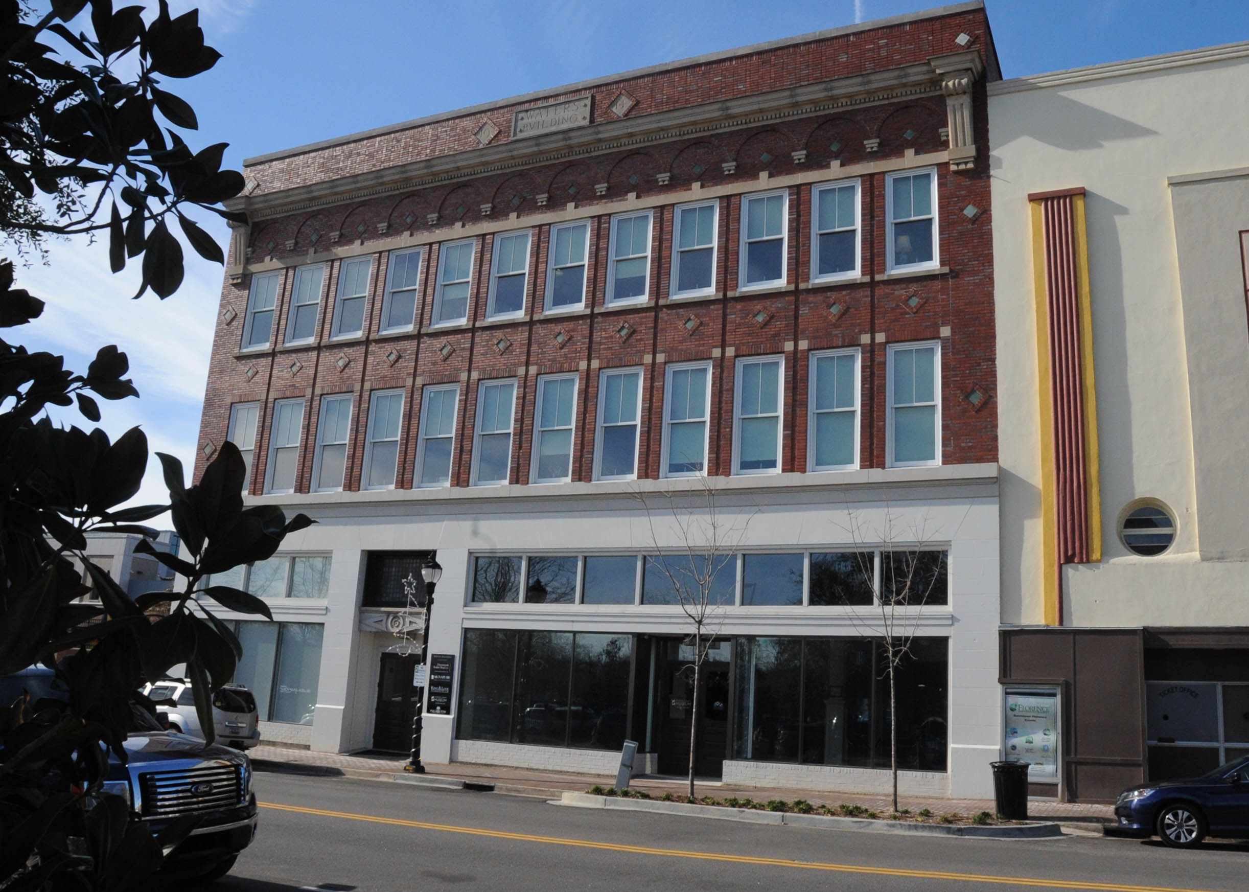 W.M. WATERS BUILDING BUILT IN 1914 USED AS A FURNITURE STORE AND ALSO AS A FUNERAL PARLOR